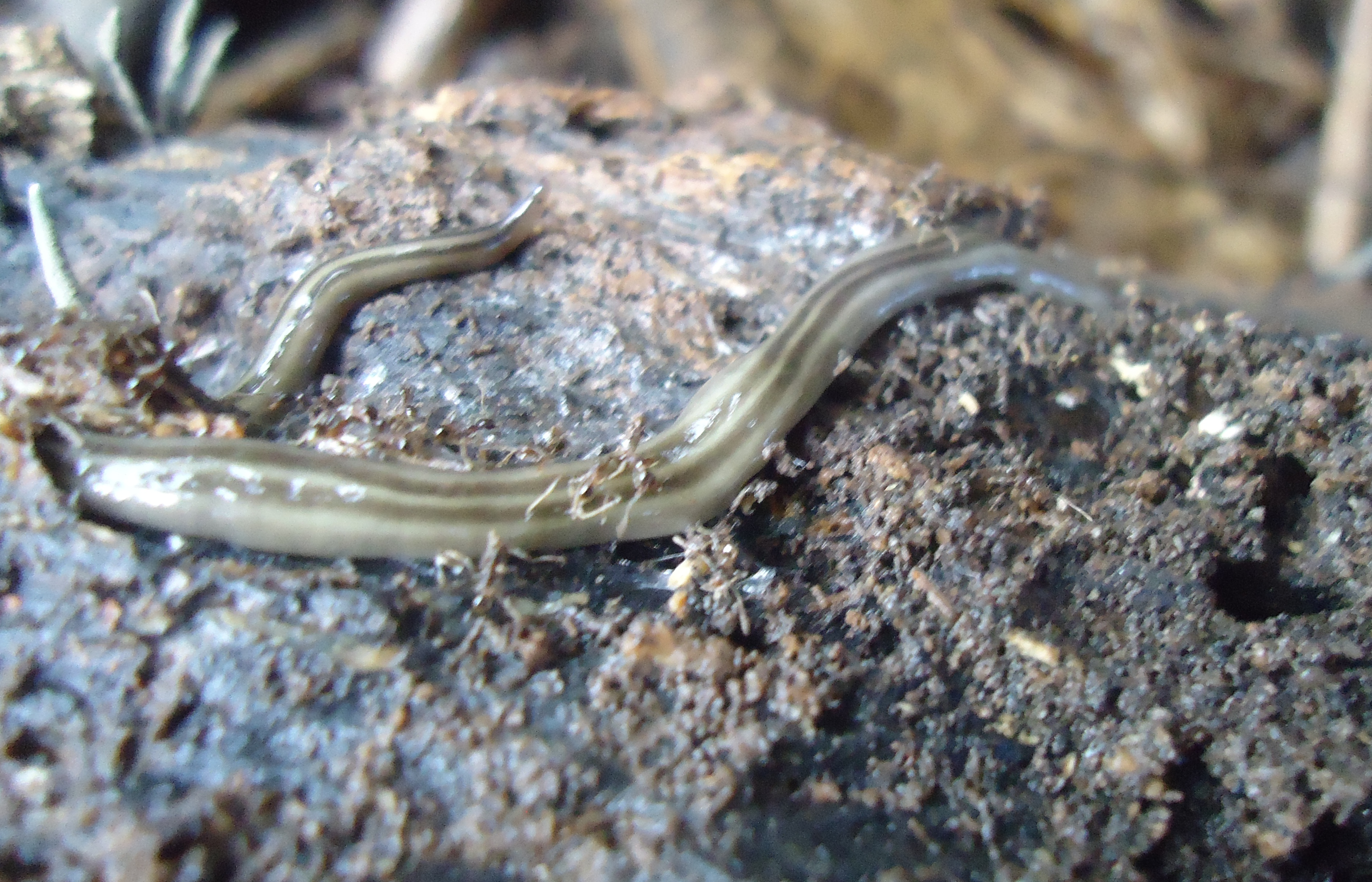 Geonemertes sp. from Mindanao, Philippines. It is possibly undescribed as it has two thick dorsal stripes; compare Geonemertes pelaensis which has a mid-dorsal brown stripe with fainter lateral ones.